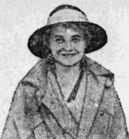 Gertrud Baer, WILPF representative